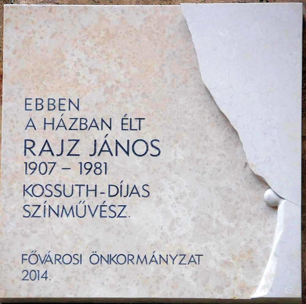 János Rajz (actor) commemorative plaque in Budapest District V, Galamb Street No 3.